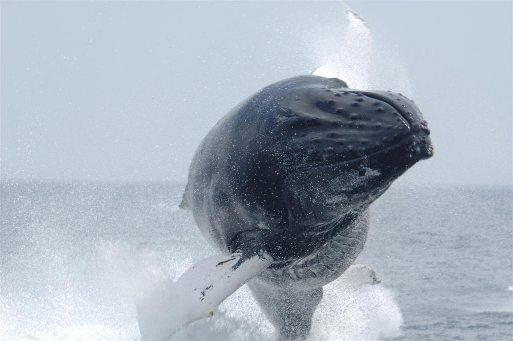 40 tons of flying humpback defying gravity. Must not have hit the boat because the picture is here.